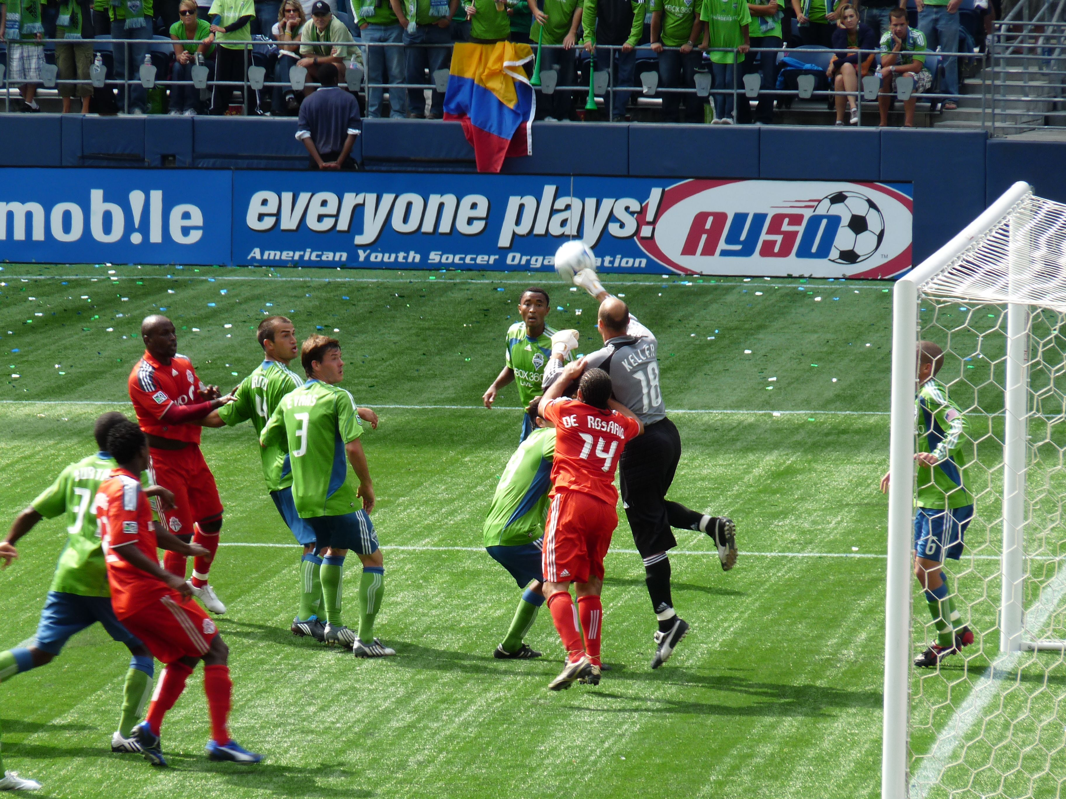 Kasey Keller at Qwest Field against Toronto FC